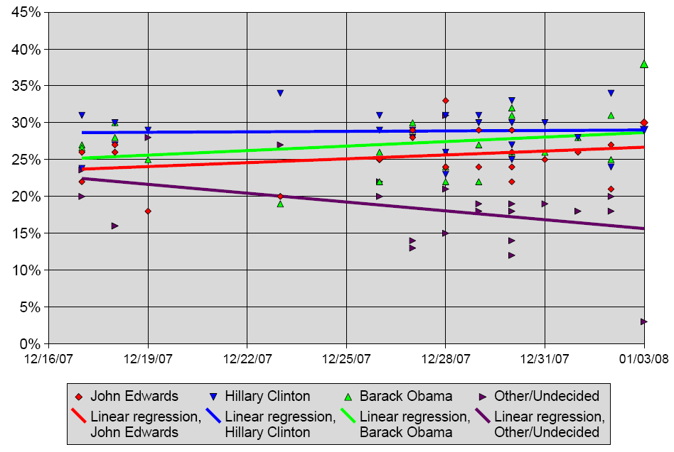 Chart summarizing poll data from Iowa for Edwards, Clinton and Obama with linear trendlines